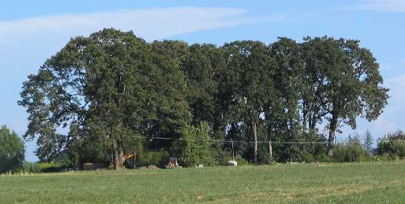 From a photo taken by the creator near Hillsboro, Oregon Sept 2004